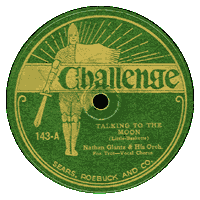 A record Talking To The Moon from Challenge Records, 1926. The song was performed by Nathan Glantz's Orchestra, vocals by Arthur Fields.